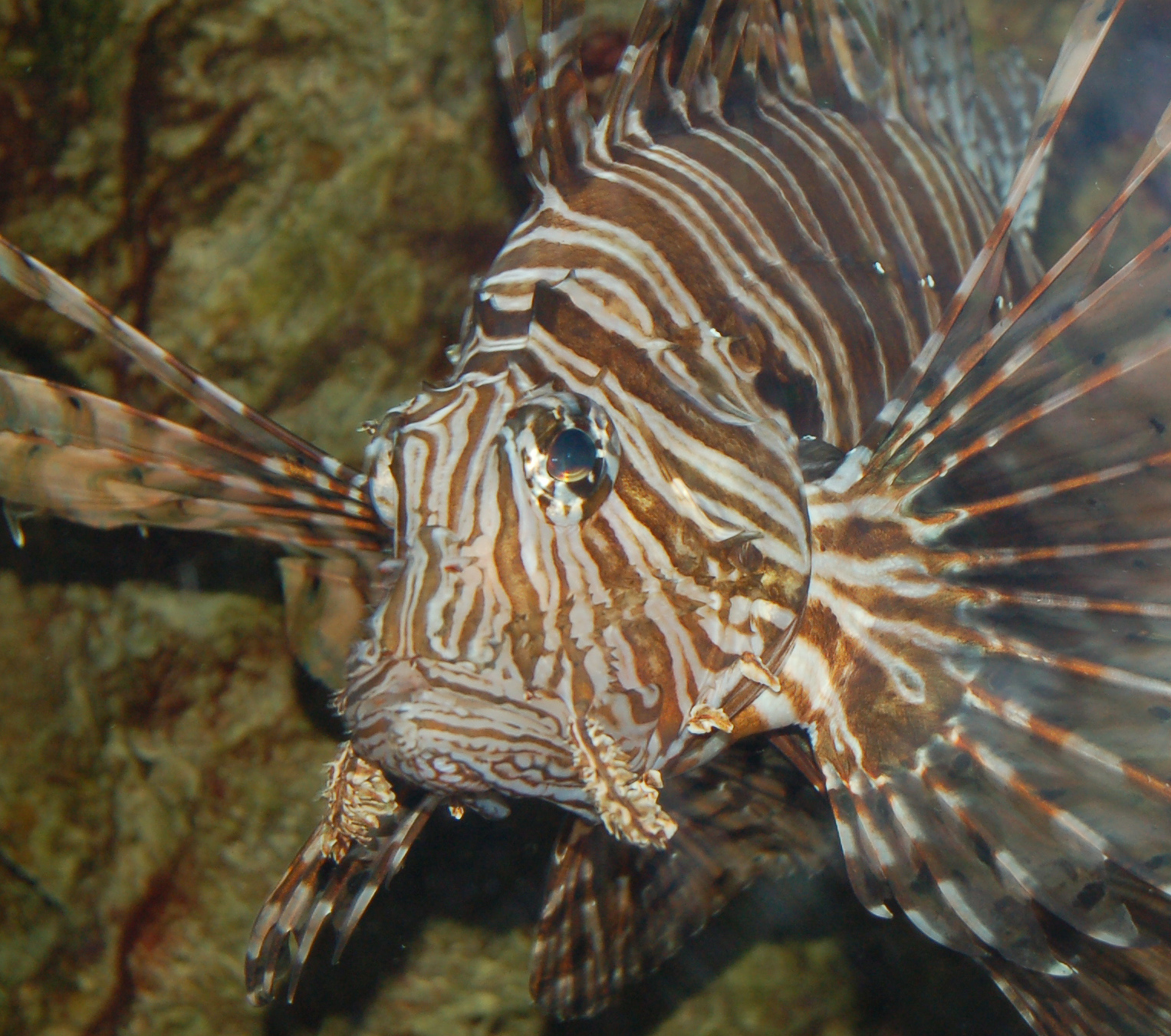 A photograph of a Red Lionfishen (Pterois_volitans en ). Photo taken at the PPG Aquarium in the Pittsburgh Zoo.